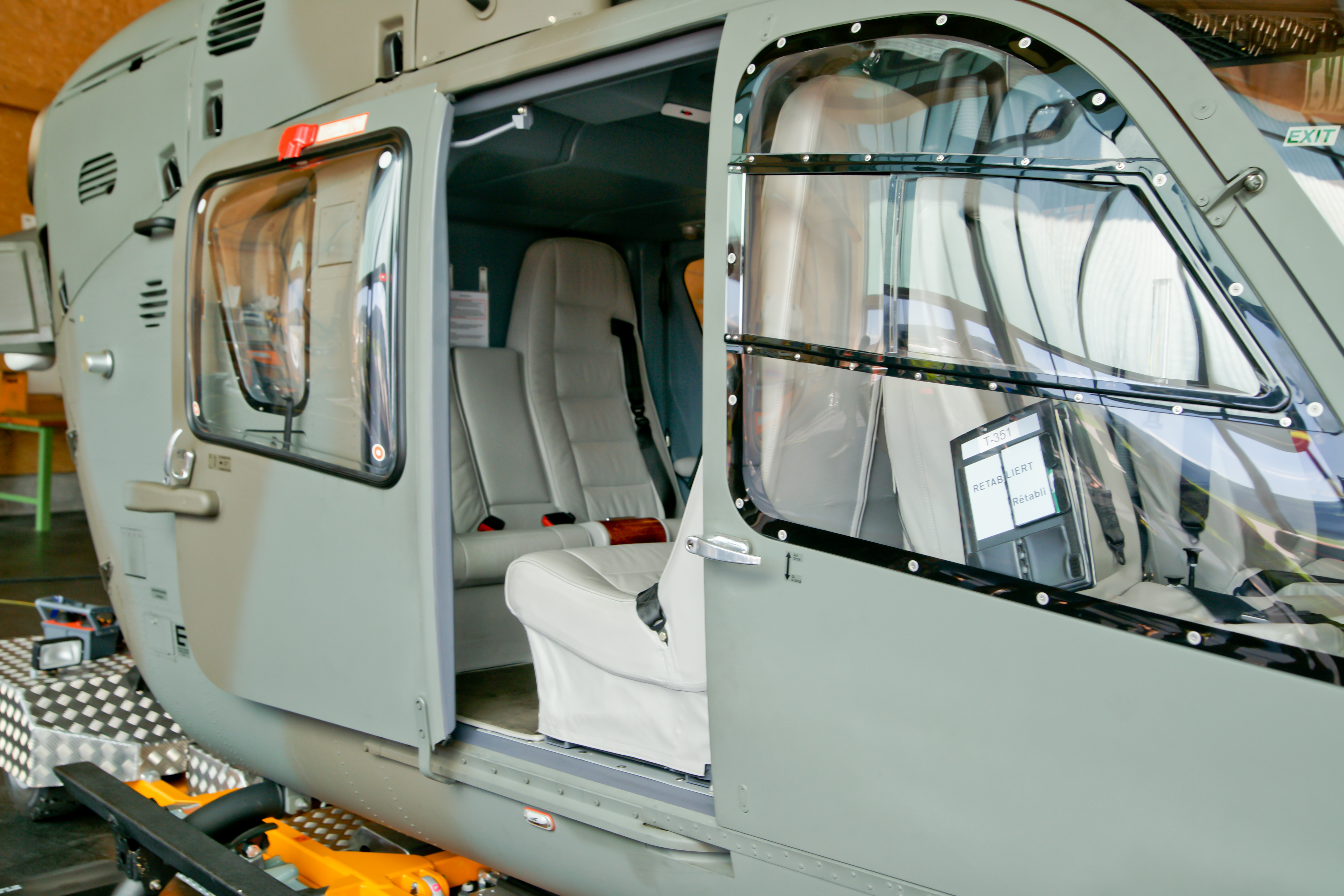 Swiss Air Force EC635P2+ VIP transport helicopter, no. T-351, in the Air Force hangar at Bern-Belp airport.